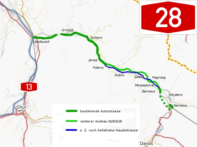 Map of the A28 in Switzerland